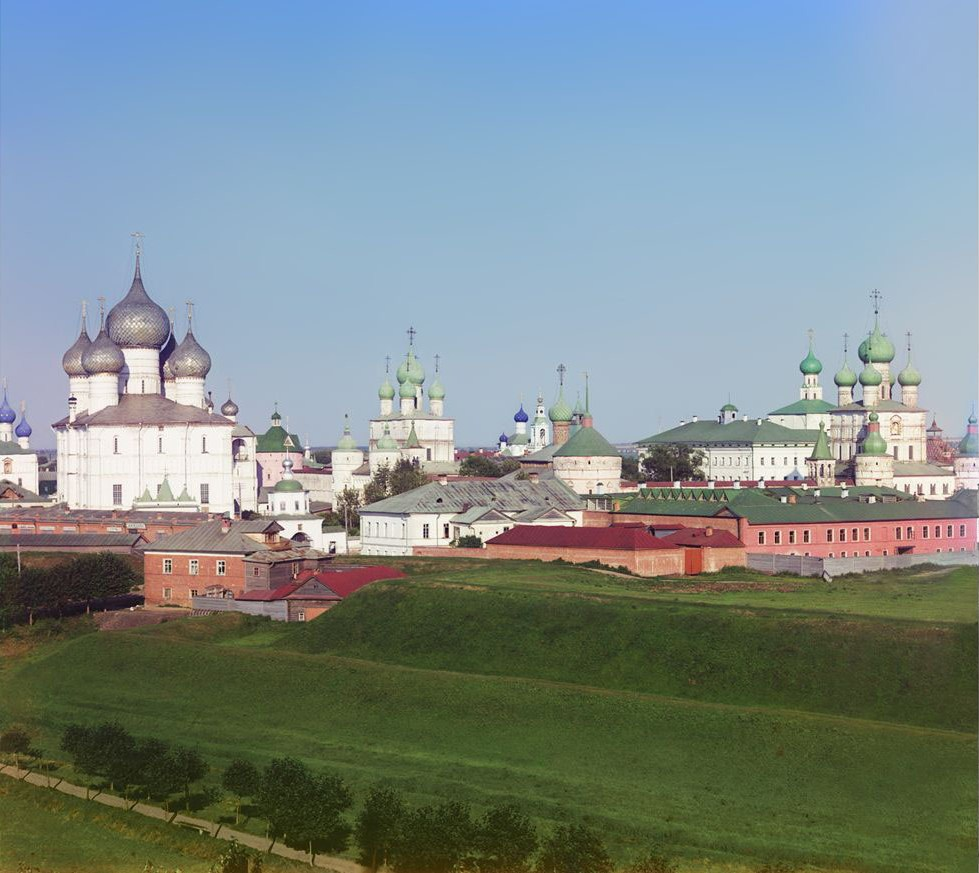 General view of the Kremlin, from the bell tower of the Church of All Saints. Rostov Velikii, 1911